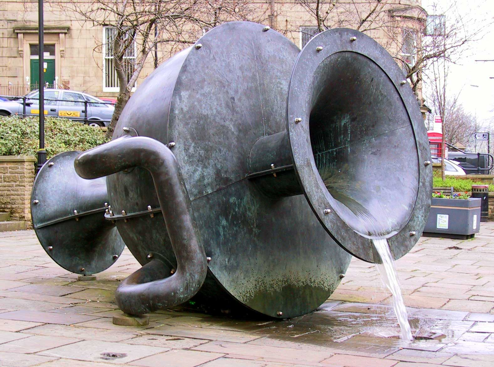 This is a photograph of Edward Allington's sculpture "Tilted Vase". The sculpture is located on the Market Place in Ramsbottom, Greater Manchester, England.